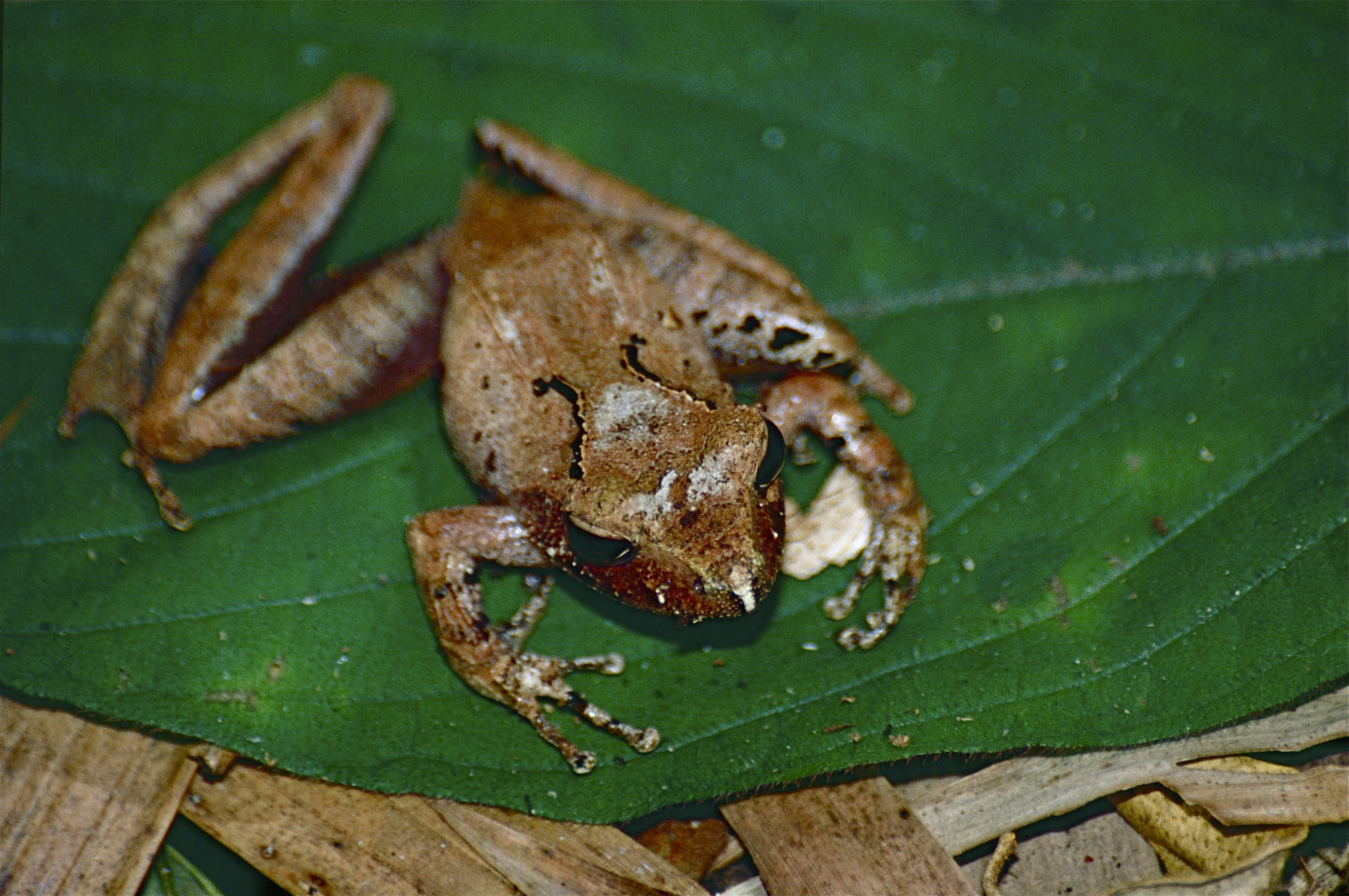 Mantadia Reserve, Perinet, MADAGASCAR Scanned Slide from 1998